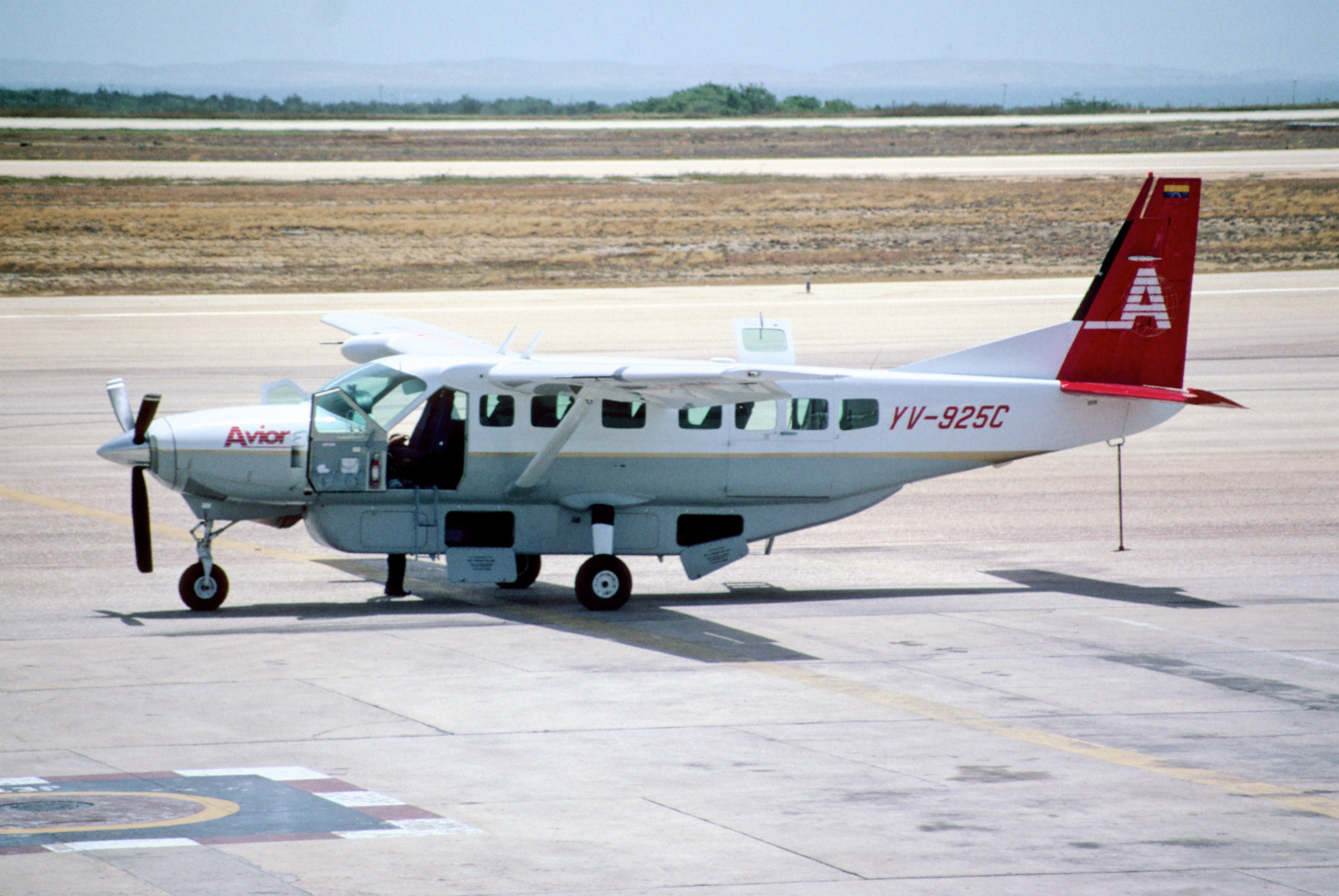 152aa - Avior Cessna 208B Grand Caravan; YV-925C@PMV;10.10.2001